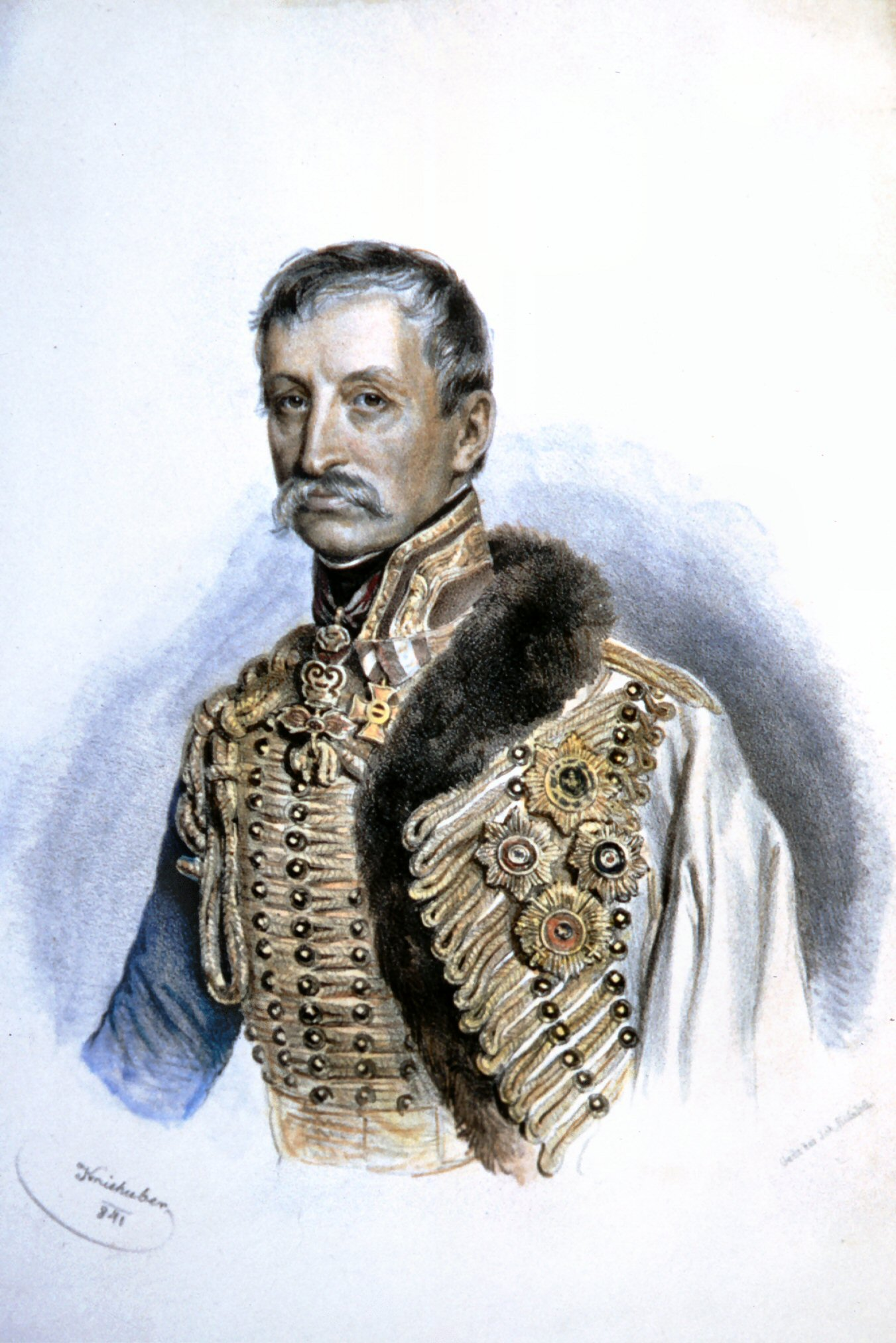 Archduke Ferdinand Karl Joseph of Austria-Este 1781-1850, Son of Archduke Ferdinand Karl Anton of Austria and Princess Maria Beatrice d'Este of Modena. Field Marschall and Supreme Commander of the imperial Army in the Napolenic Wars, then Generalgouverneur of Transsylvania and Galicia